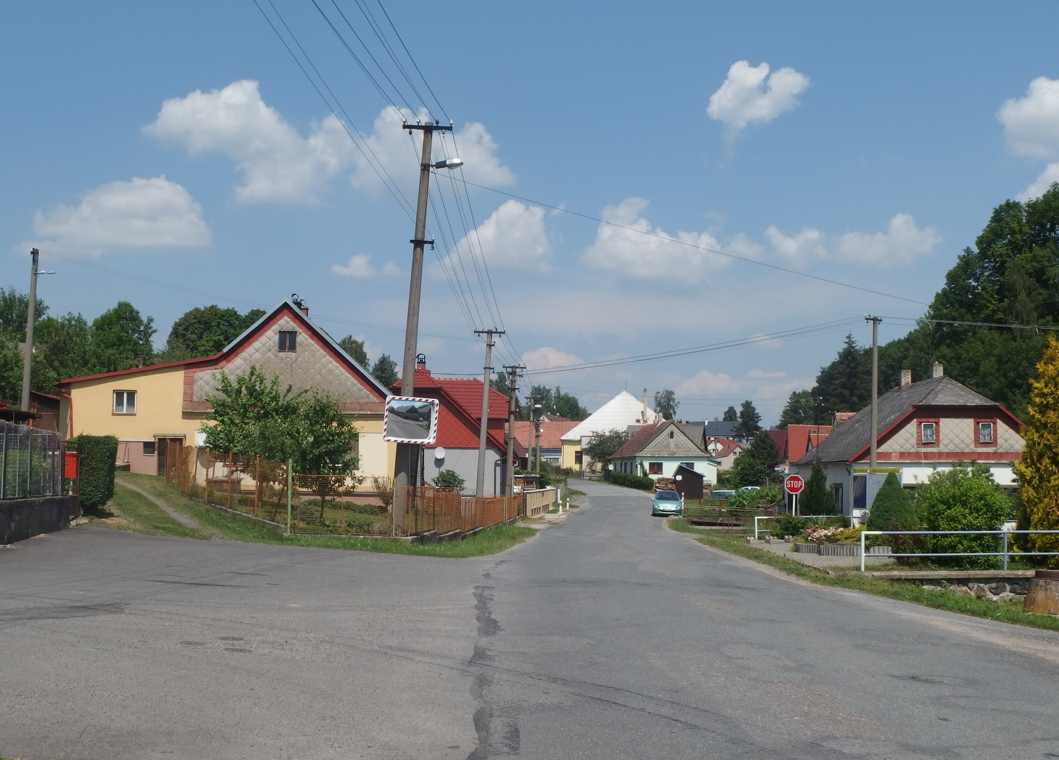 Rohozná, Svitavy District, Czech Republic.